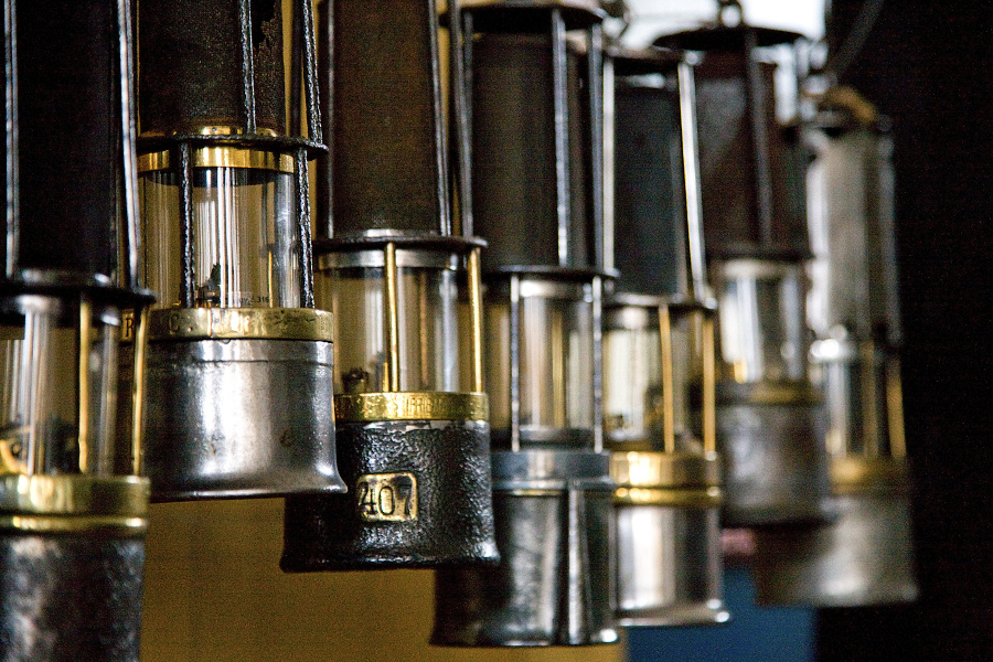 Mining lamps Michal Mine, Ostrava-Michálkovice, Czech Republic.